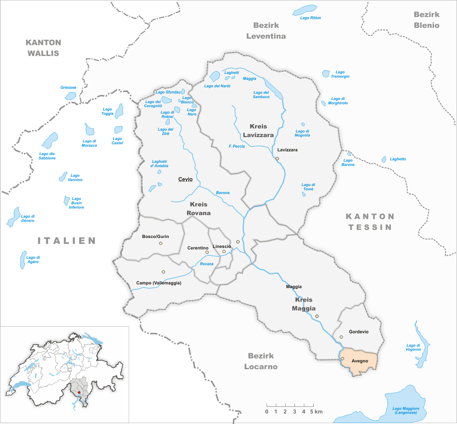 Municipality Avegno